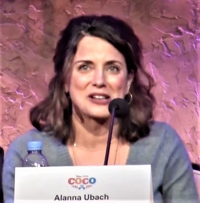 🍭 Coco cast talks the making of Coco Actress Alanna Ubach speaks about the film. by Dulce Osuna